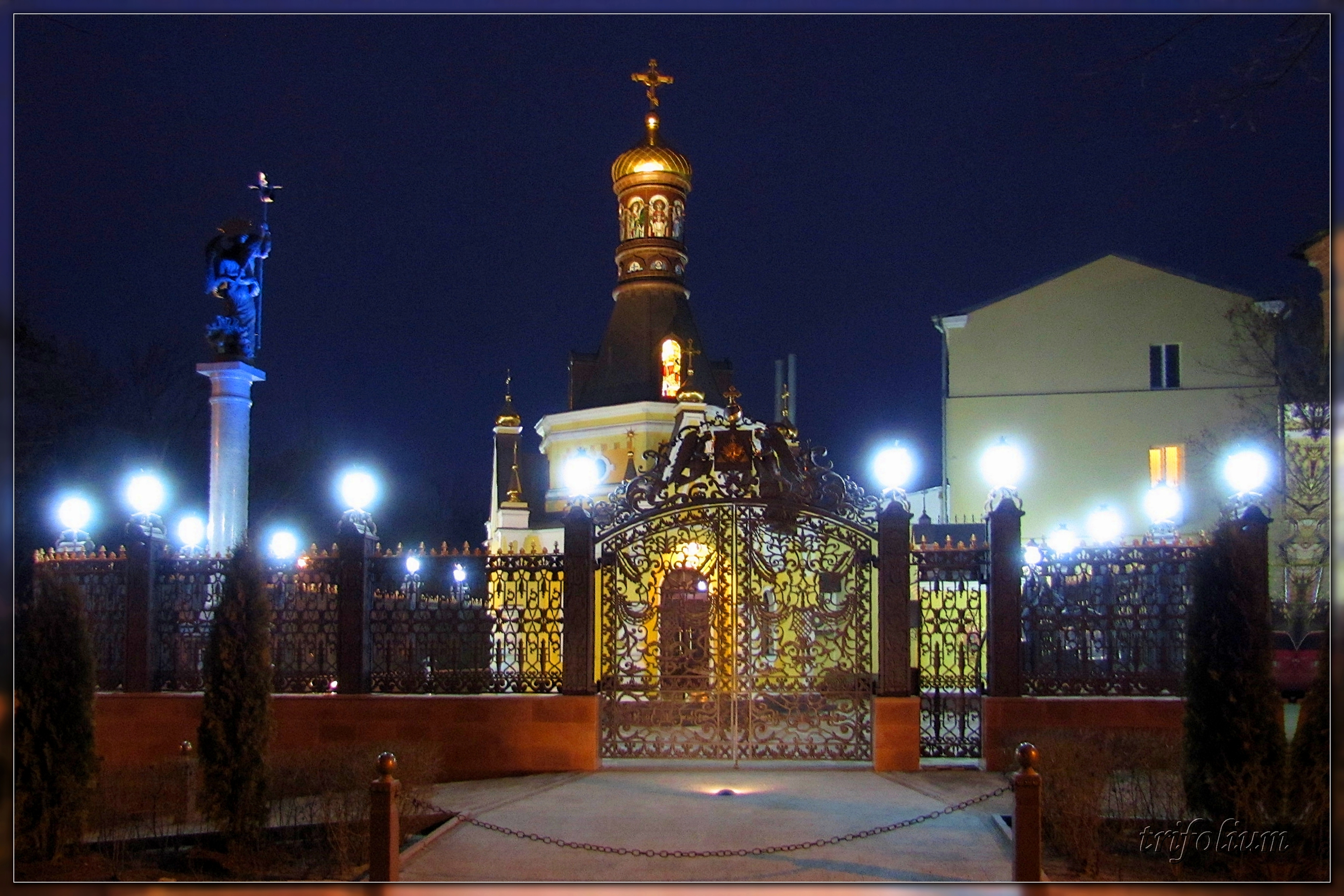 A chapel of saint George is Victory